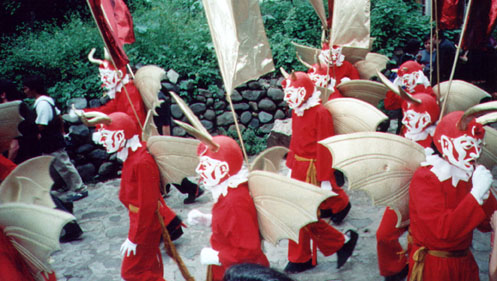 Show created for the Comparsa Falfán in 1998 for the traditional popular party in Zacualpan de Amilpas, Morelos, México.